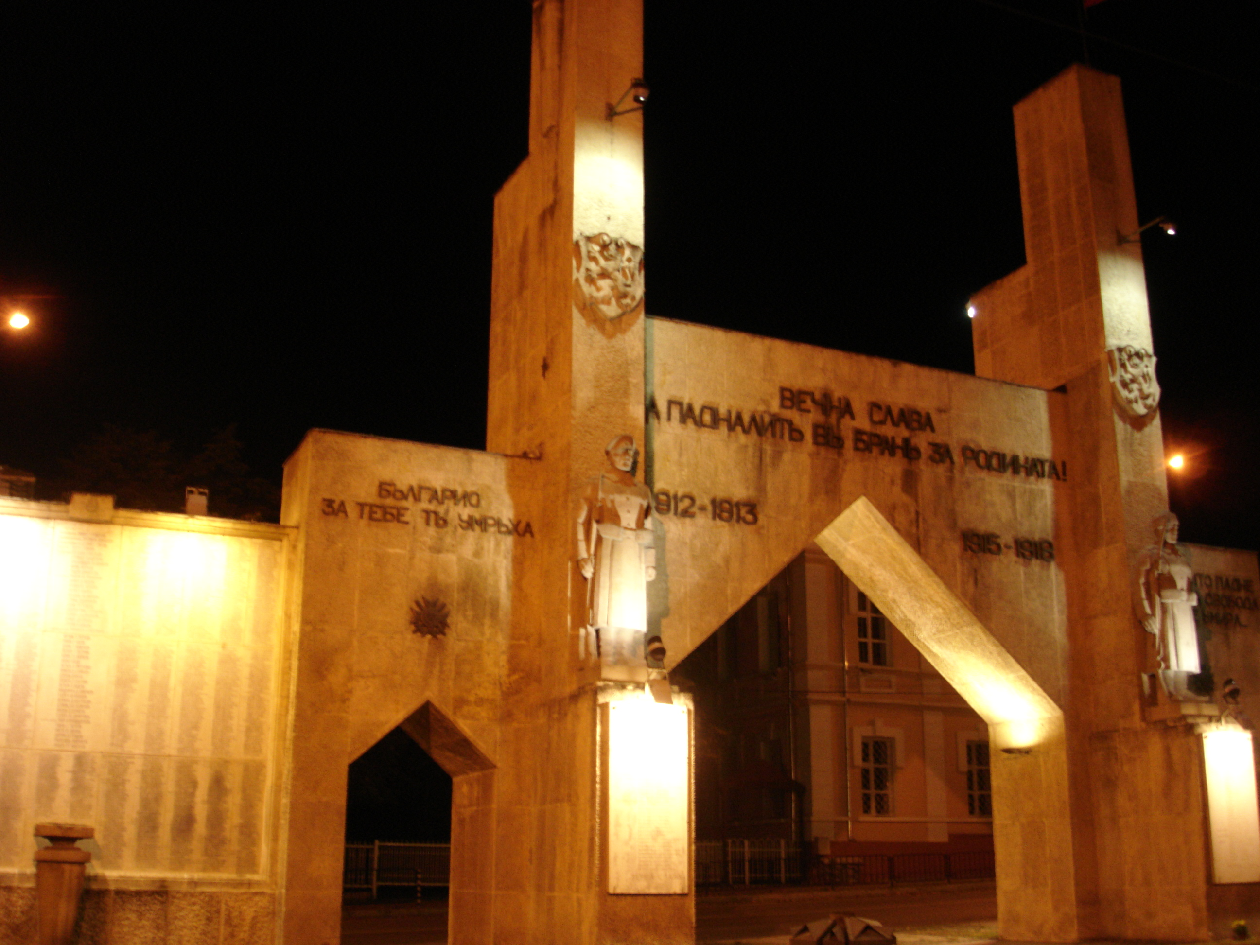 Memorial of Eight Sea Regiment in Varna